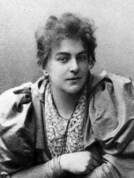 Russian singer, actress, critic, translator Lika Mizinova (1870-1939)